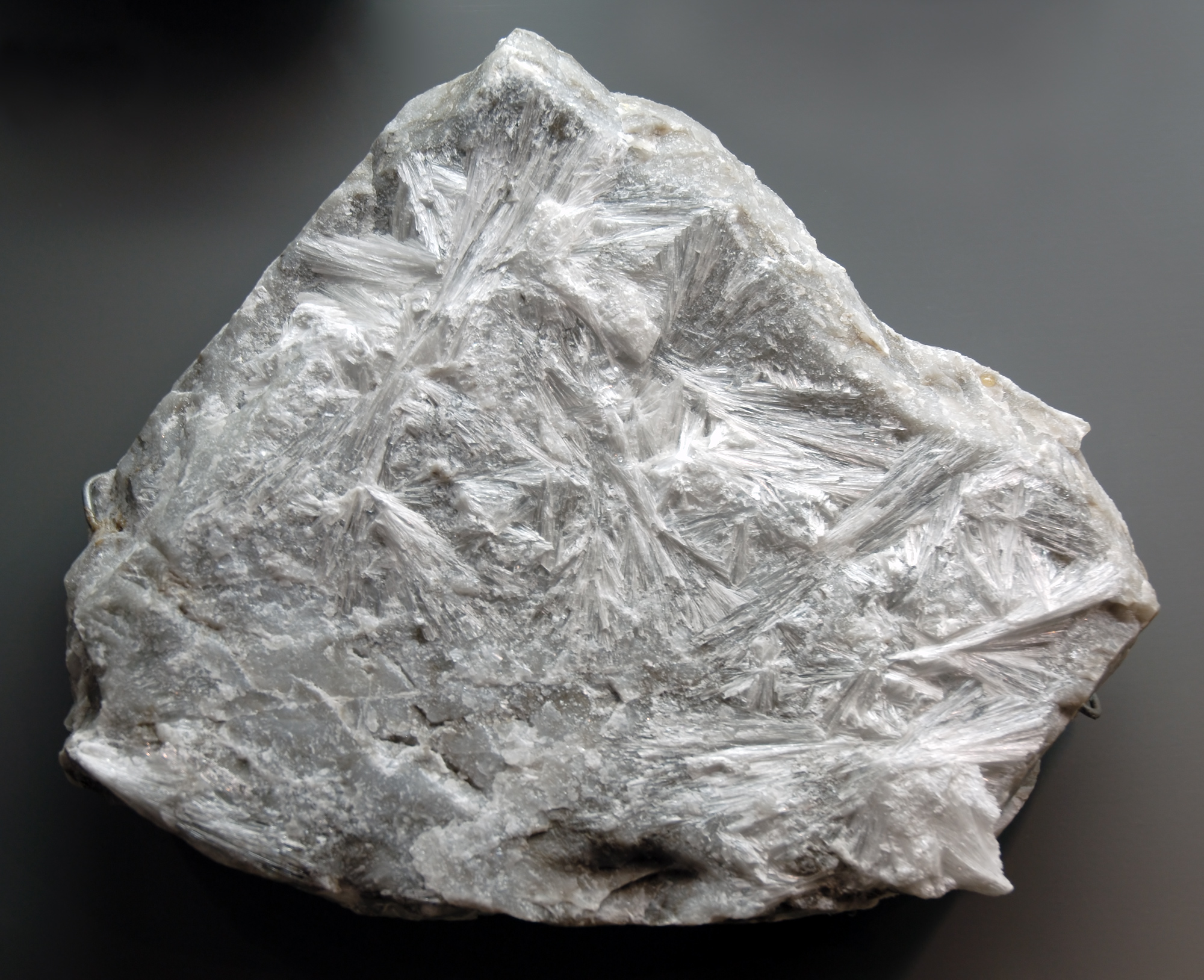 This image shows the mineral hydroboracite, found in Niedersachswerfen, Germany.